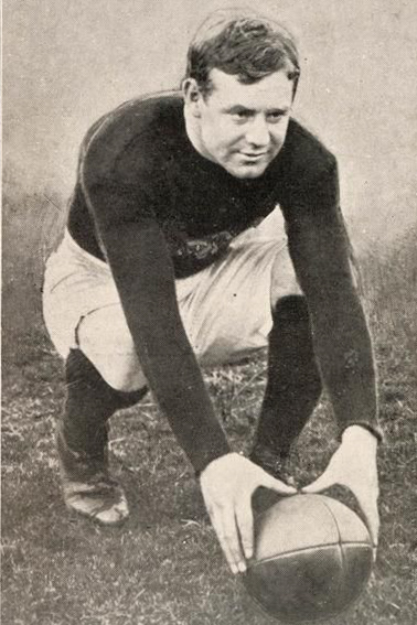 Photograph of Vin Gardiner from the 1910 Weekly Times Victorian Footballer Postcard Series